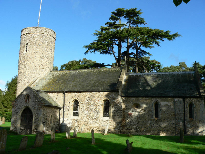 Framingham Earl St Andrew